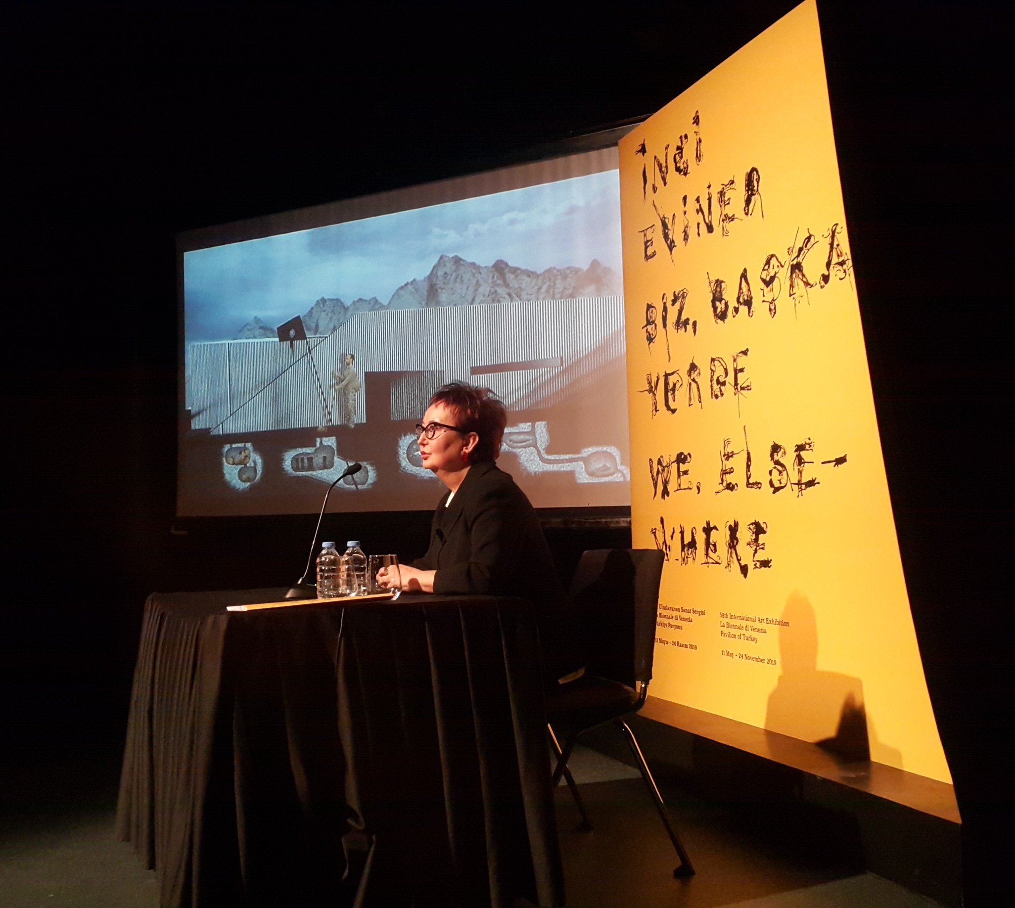 İnci Eviner during the press meeting of La Biennale di Venezia 58th International Art Exhibition Pavilion of Turkey, February 12th 2019